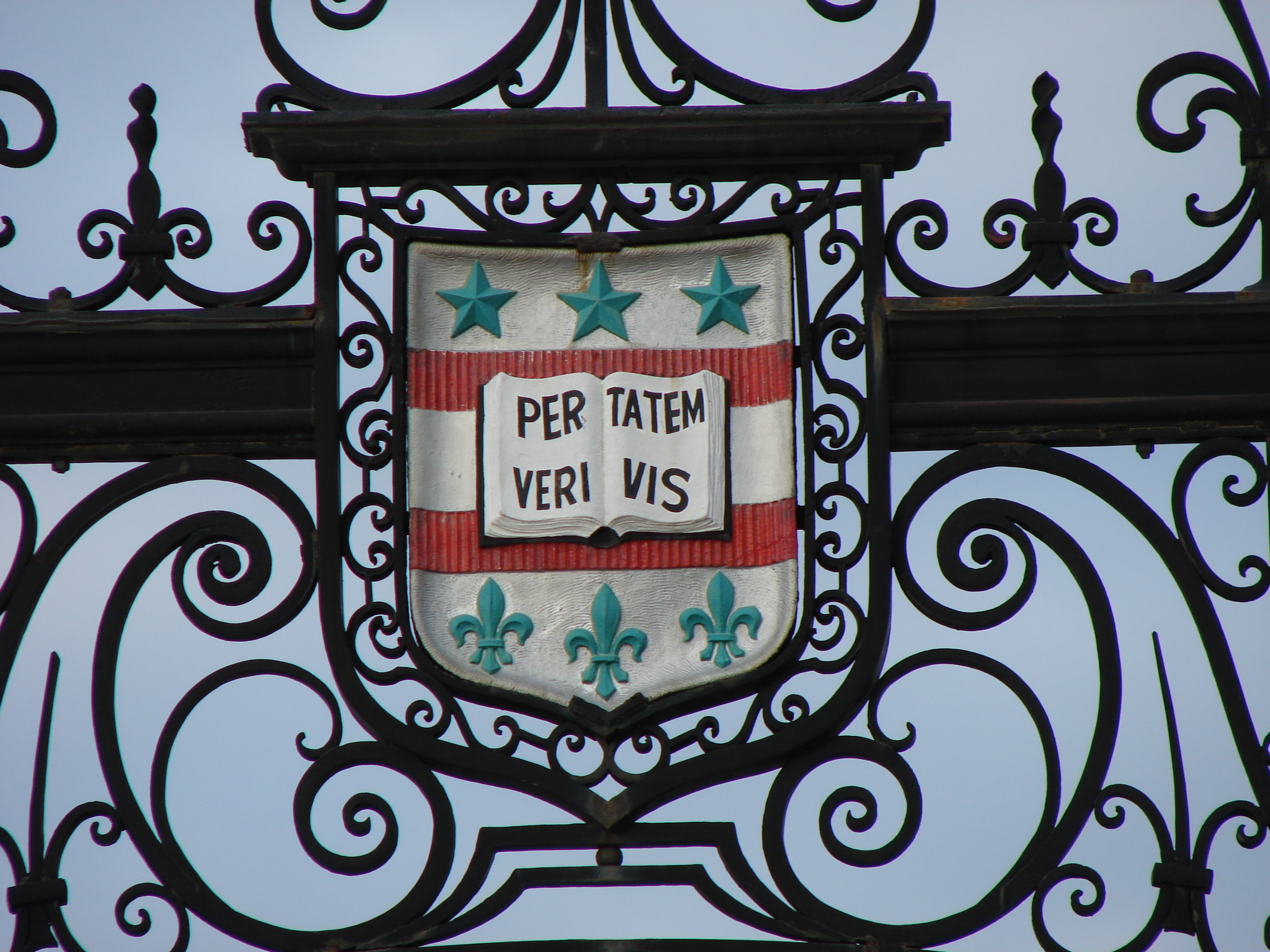 Francis Gate